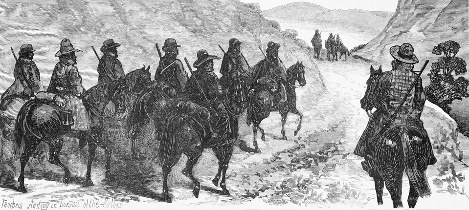 Mounted policemen begin a pursuit of bushranger Ned Kelly and his gang.